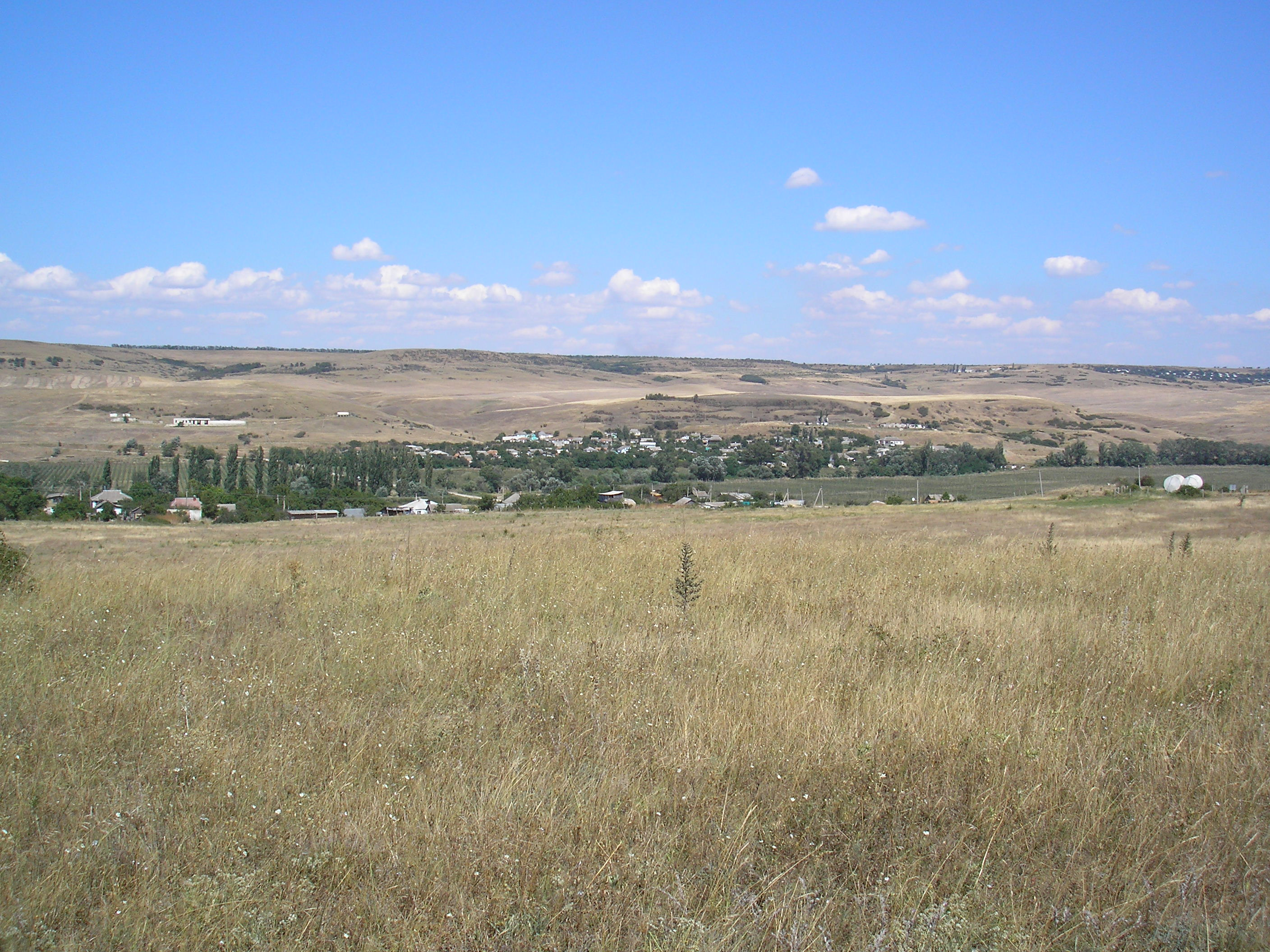 Village Zubakino, Bakhchisaray district, Crimea